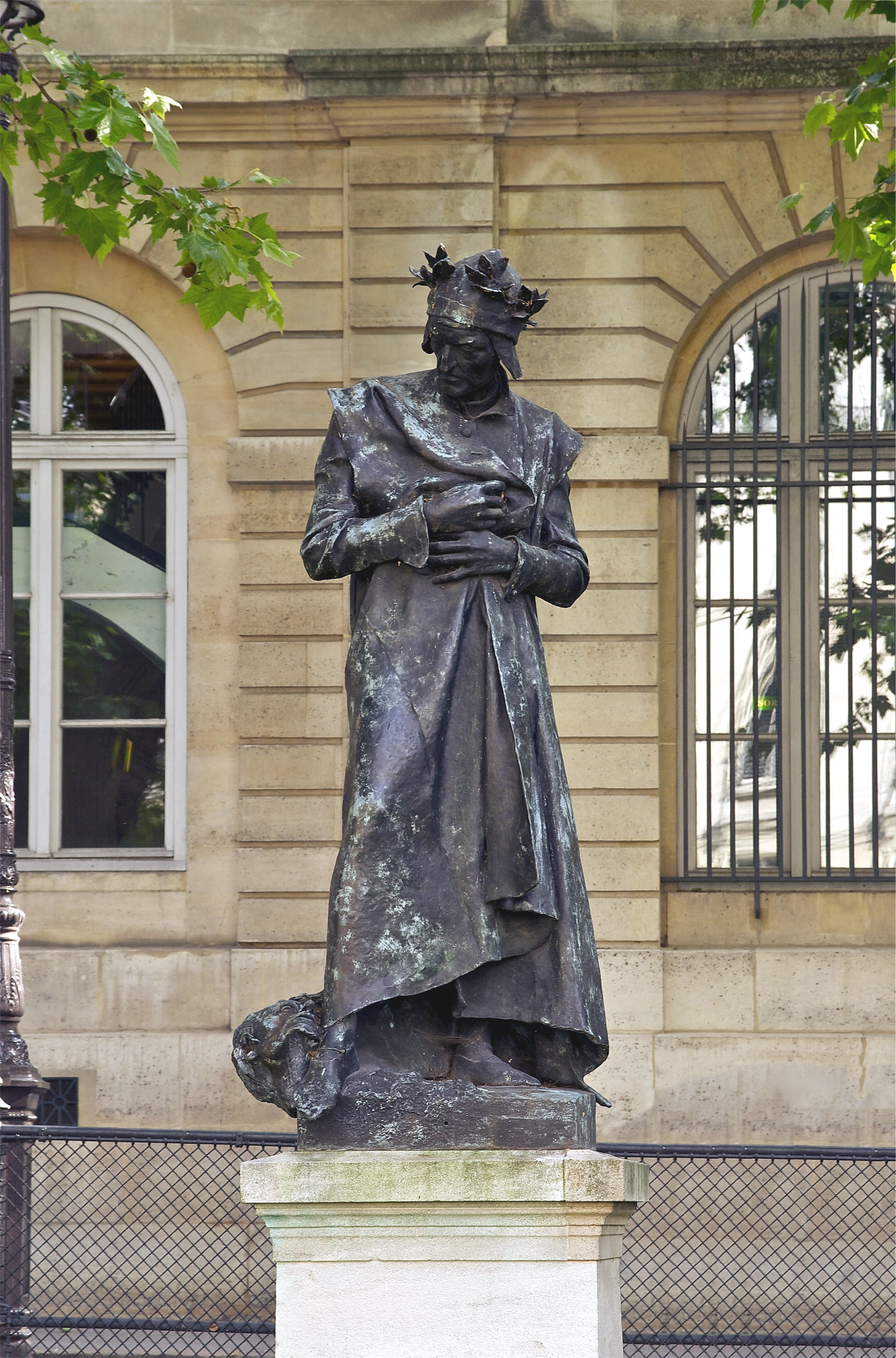 Statue of Dante, kicking the head of Bocca degli Abati when met in the ninth circle of Inferno (Canto 32), Garden Michel-Foucault, rue des Ecoles, Paris, France.